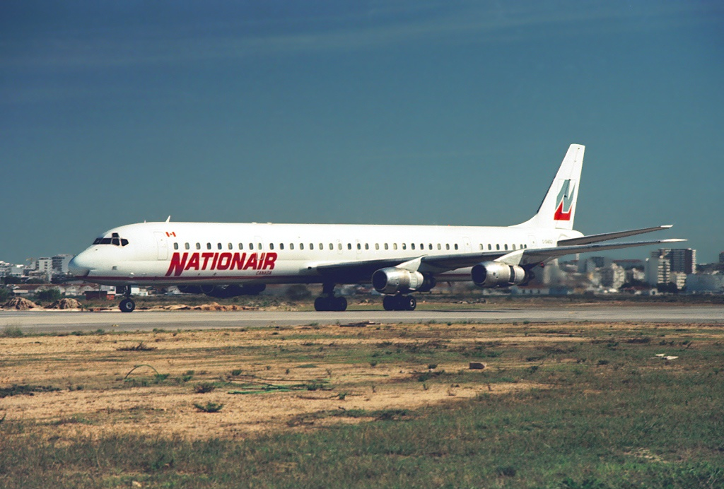 A Nationair Douglas DC-8-61 at Faro Airport (FAO / LPFR). This aircraft crashed on 11 July 1991 while operating a charter flight on behalf Nigeria Airways.